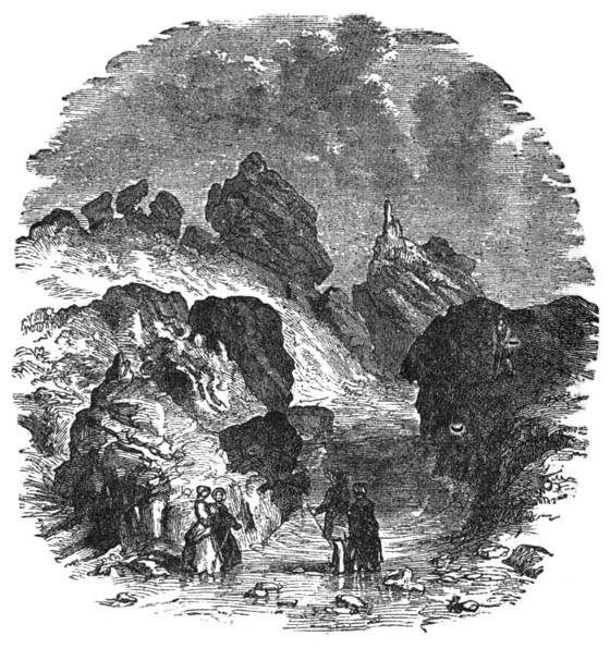 Black and white illustration of the "Long Hole" on Ireland's Eye taken from How to spend a month in Ireland by Sir Cusack Patrick Roney, published in 1874